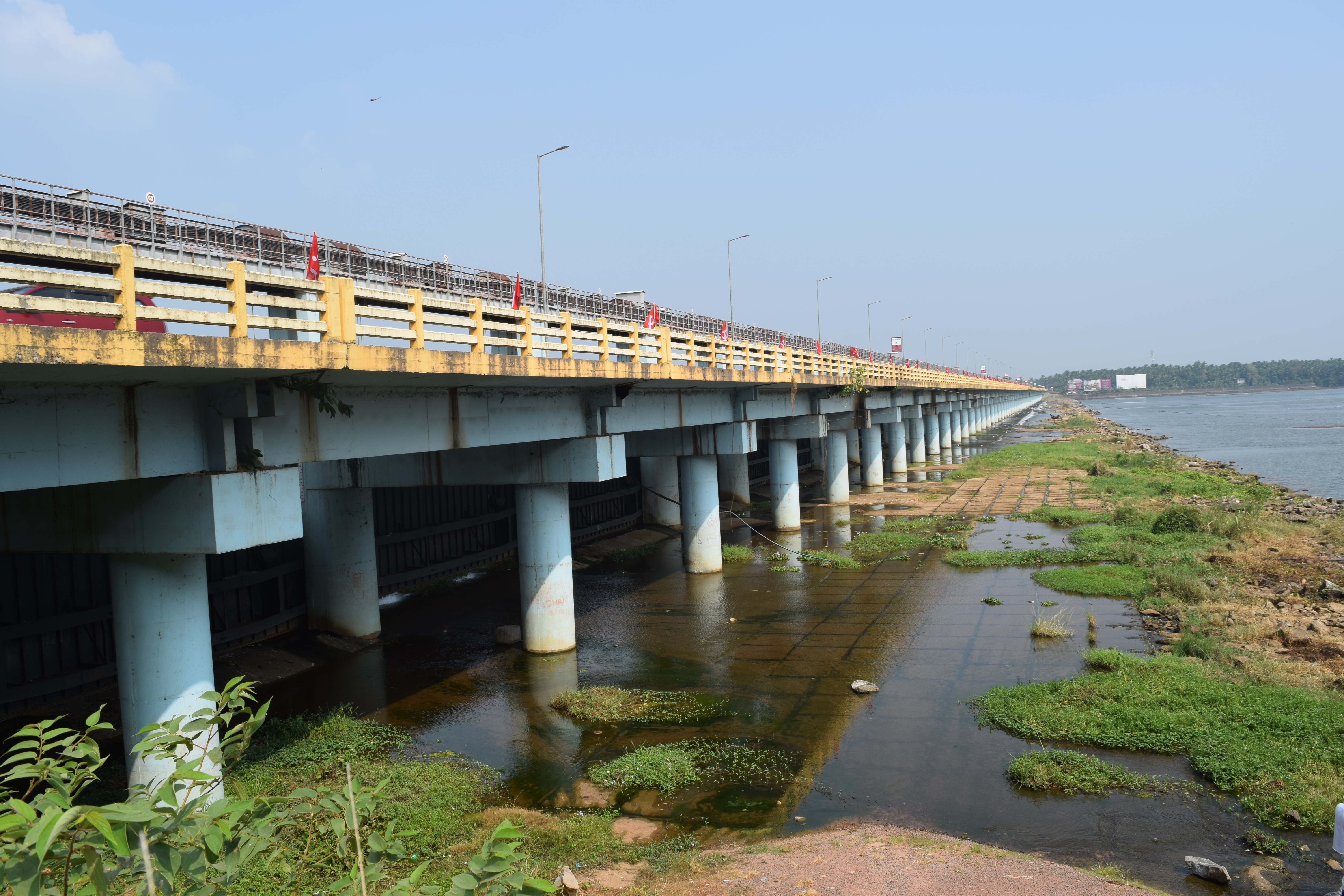 Chamravattom Regulator cum Bridge, Implimented by Govt of Kerala Irrigation Department, Located by Chamravattom, Tirur & Ponnani Taluk, Malappuram Dt. Kerala, Project Cost 148.39 Crores ചമ്രവട്ടം പാലം